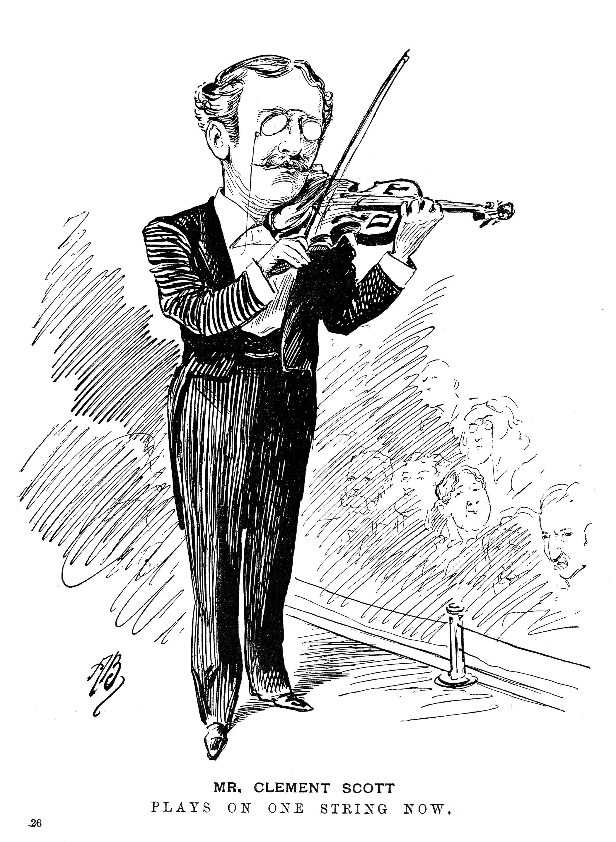 The theatre critic and humourist Clement Scott. The DT on the violin refers to the Daily Telegraph.